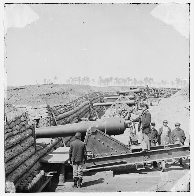 A battery of Parrott guns at Fort Brady, Virginia. They are manned by the 1st Connecticut Heavy Artillery. 1864